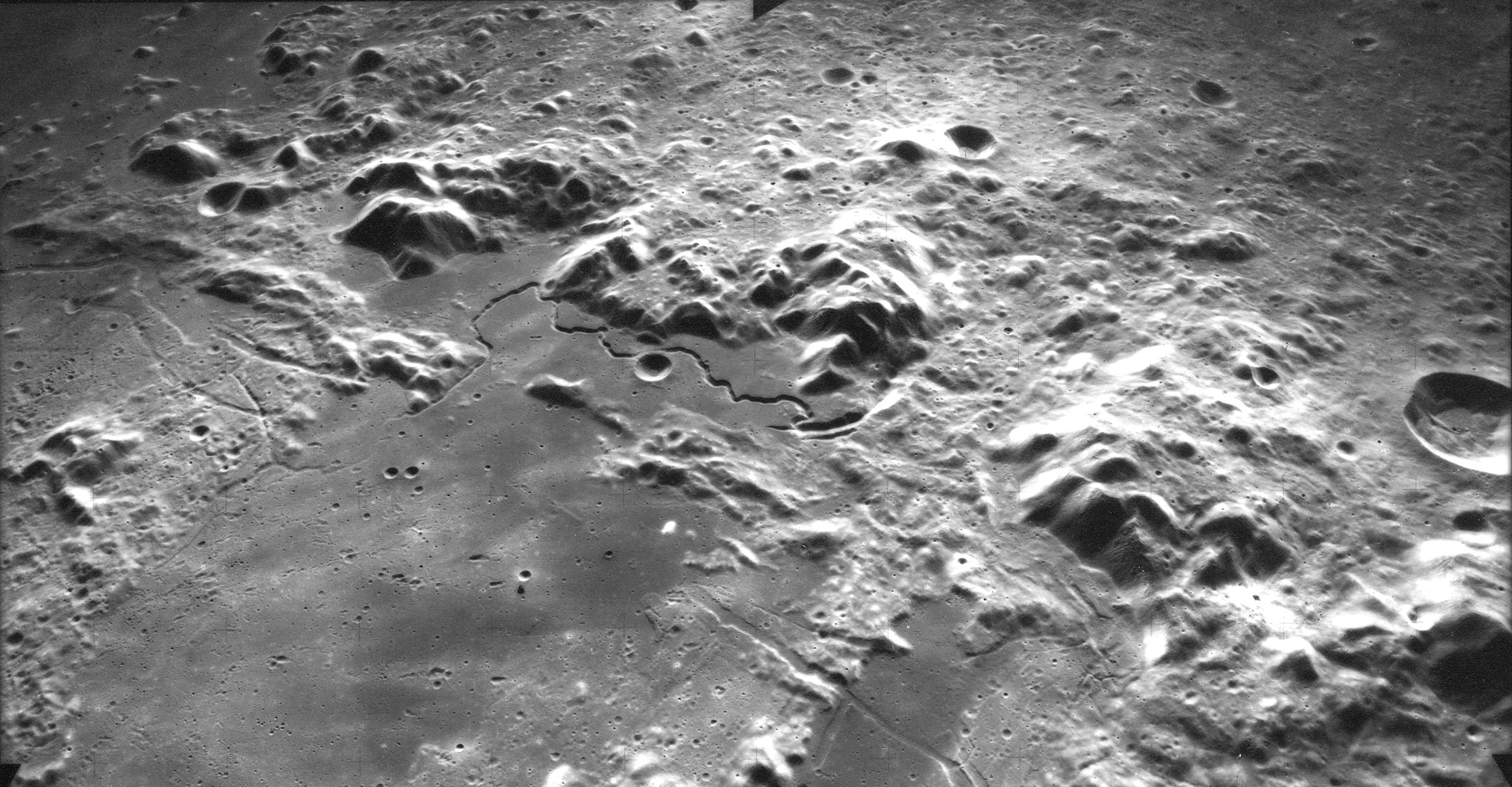 Oblique view of northern Montes Apenninus, including Mons Hadley, Hadley Rille (near center), and the Apollo 15 landing site, facing east from an altitude of 105 km, on revolution 34 of the Apollo 15 mission.